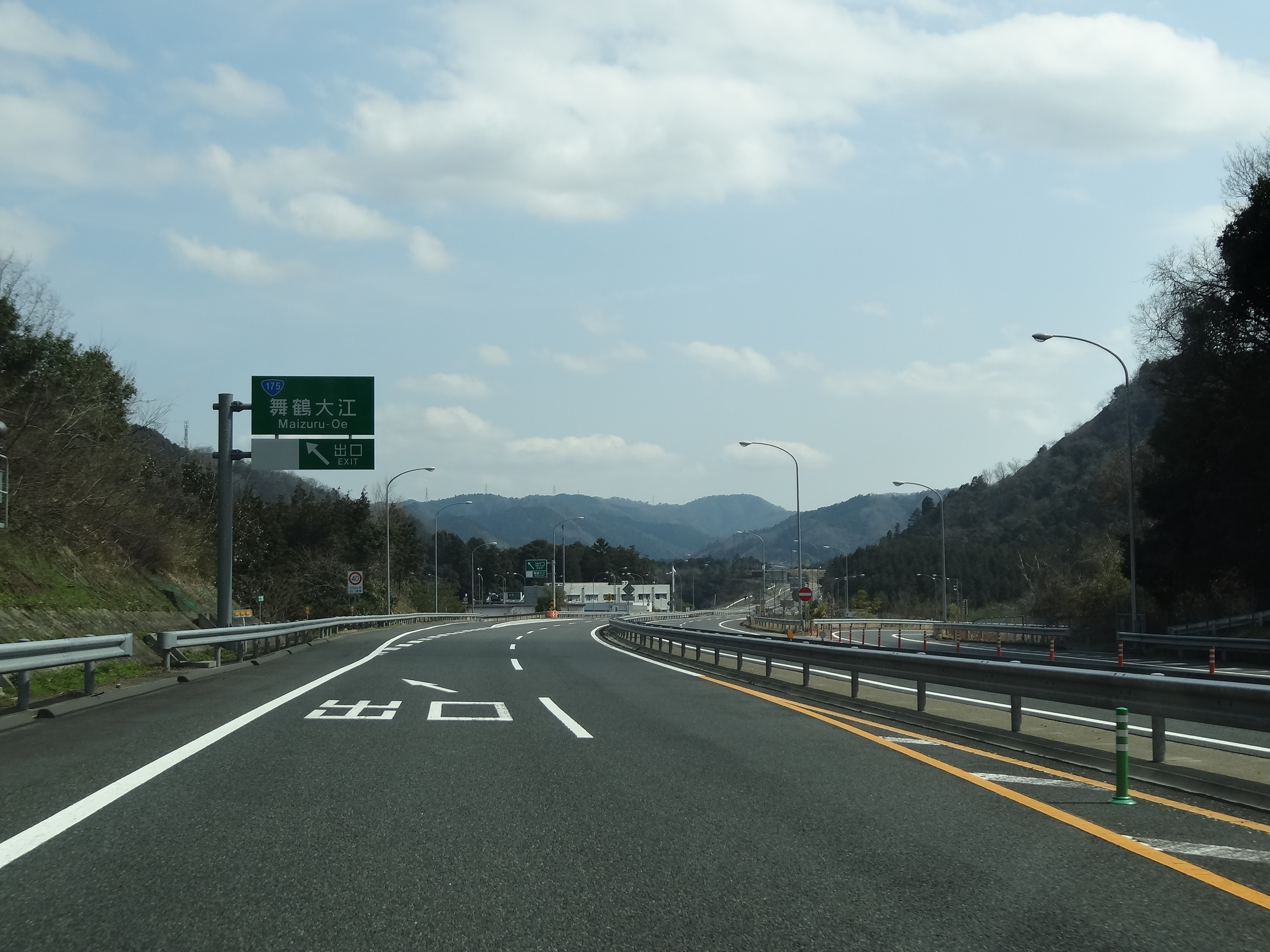 The Kyoto-Jukan Expressway in Oe, Maizuru City, Kyoto Prefecture, Japan.